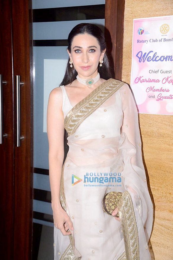 Karisma Kapoor snapped at Rotary Club of Bombay West